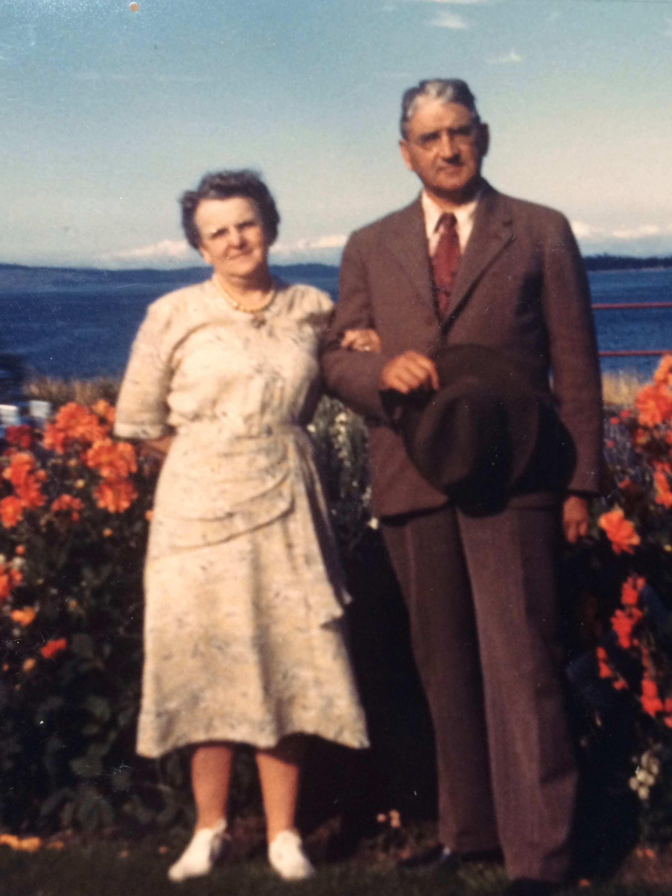 Joseph and Ida Côté in 1949.